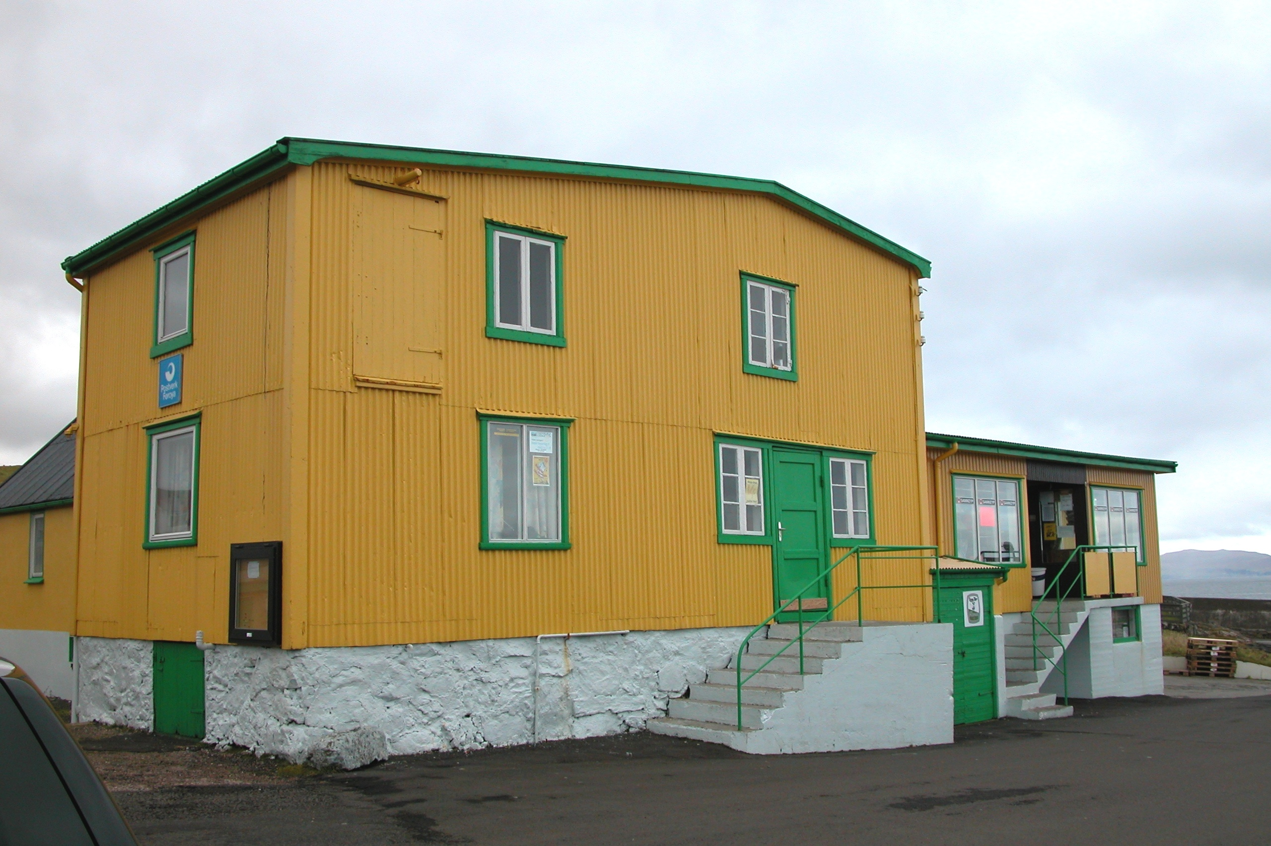 Post office in Skálavík on Sandoy, Faroe Islands. The post office in Skálavík opened 1 October 1918 and closed 12 January 2007. The monopoly alcohol store Rúsan (Rúsdrekkasøla Landsins) is in this building now. It was in the ground floor earlier, but it was flushed away in storm in 2008. Now it is on the first floor in stead.